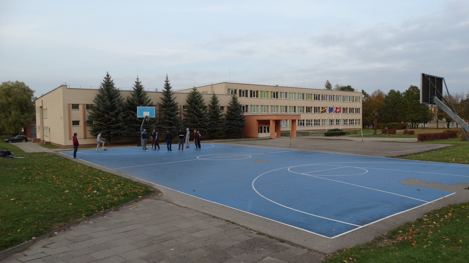 Jotvingiai Gymnasium, Alytus, Lithuania